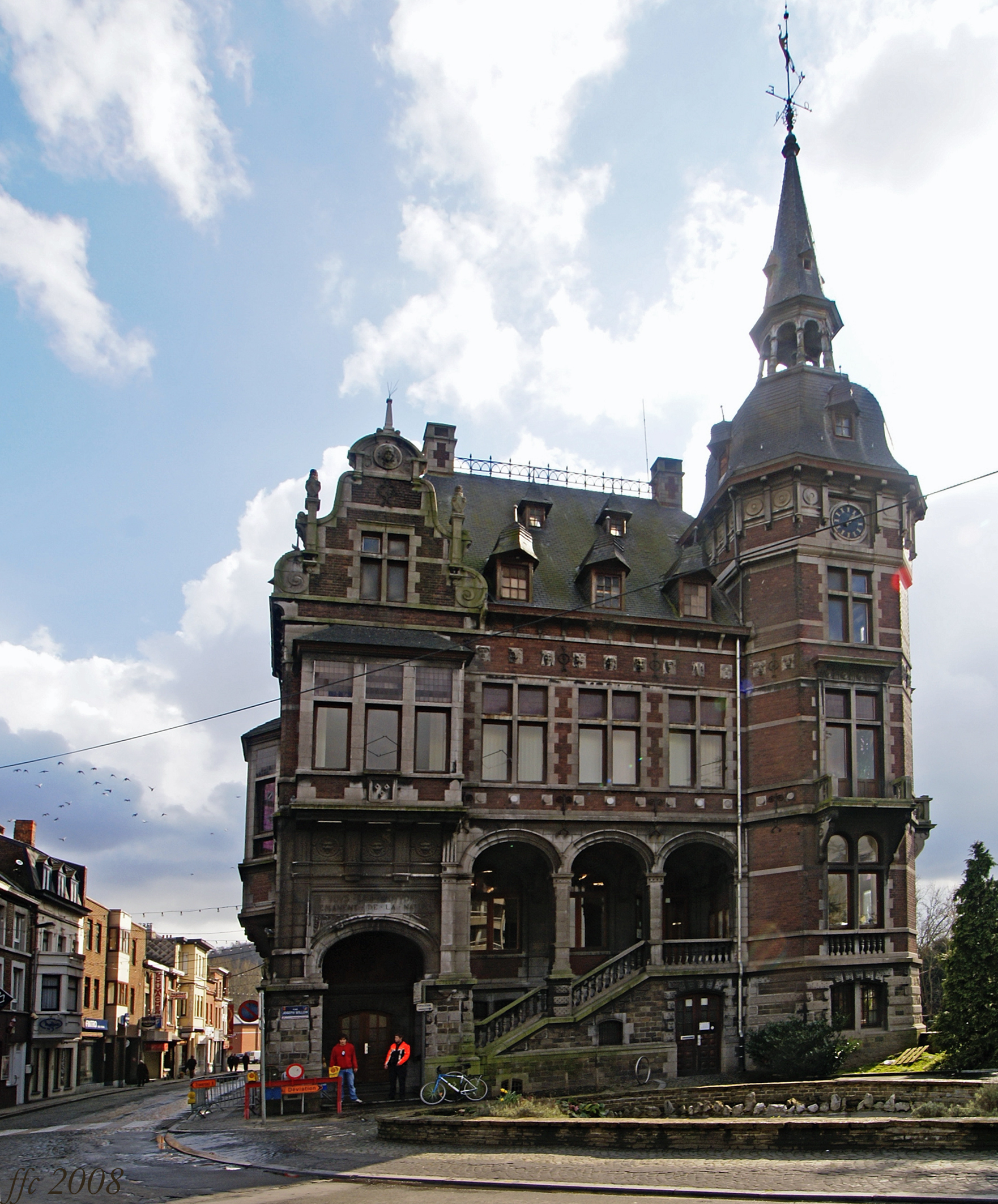 Chênée (Belgium): Former Town Hall (detail) quotation in French from art 33 § 1 of the Belgian constitution "Tous les pouvoirs émanent de la nation"